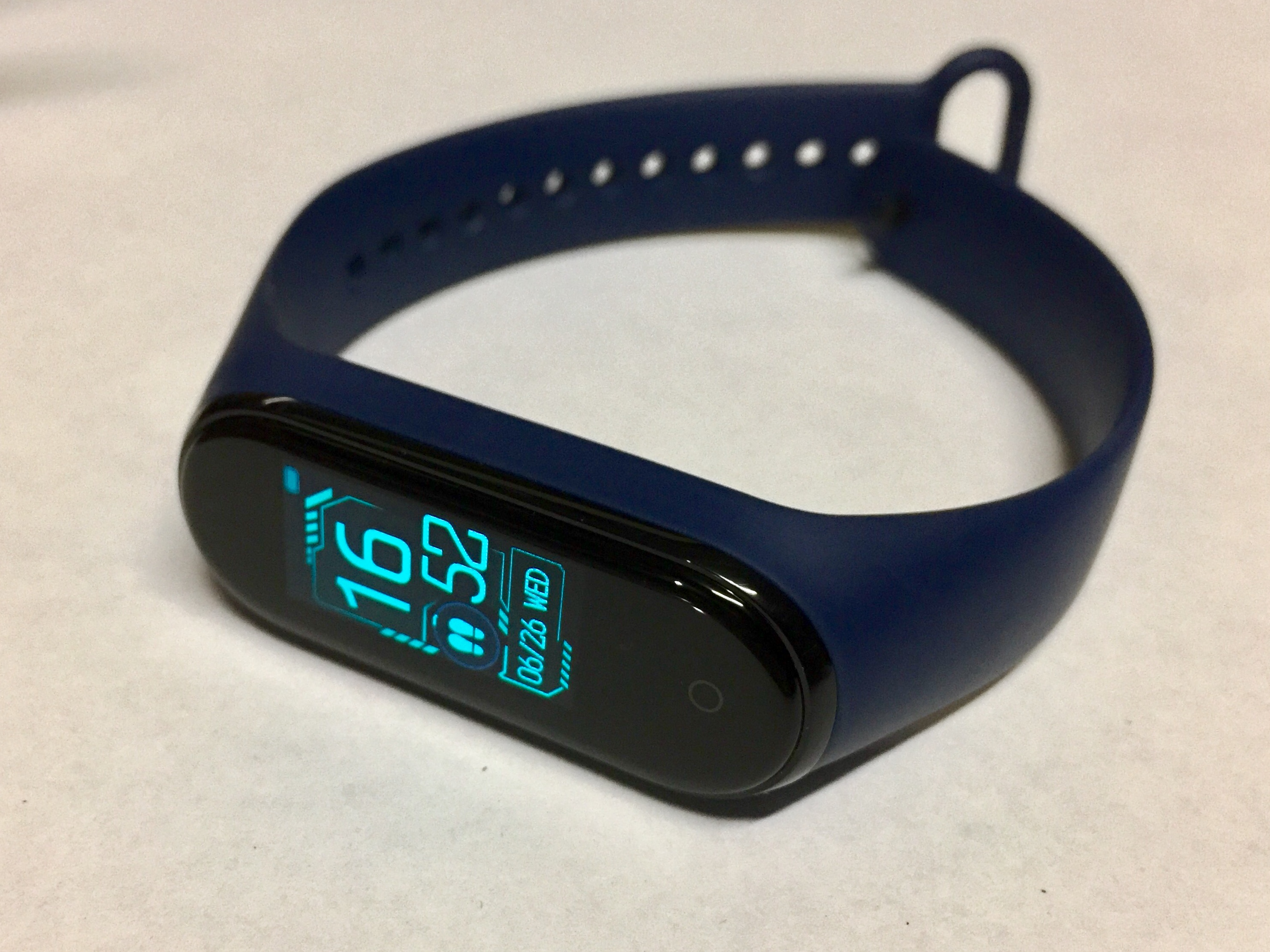 Xiaomi Mi Band 4